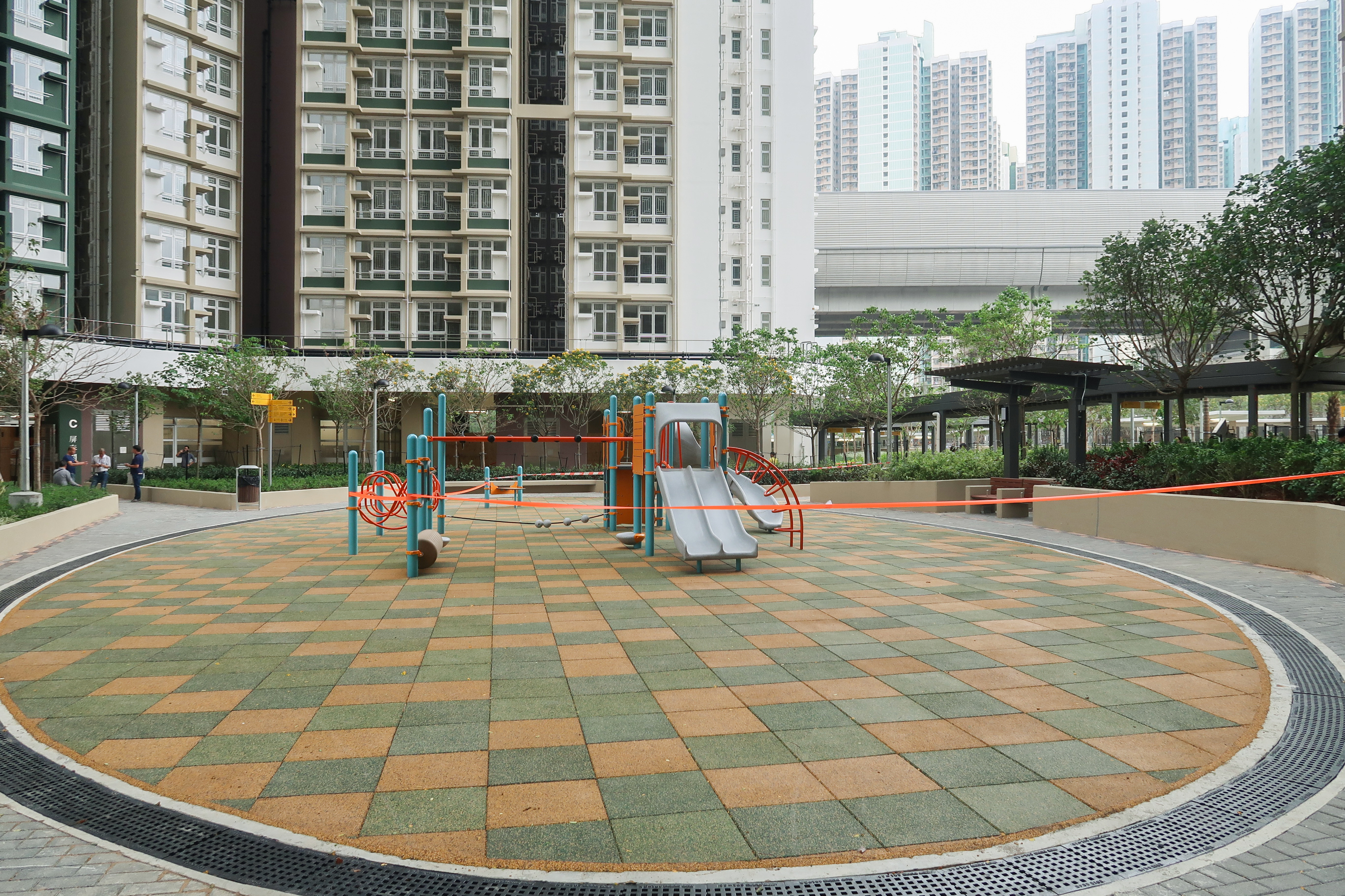 Ping Yan Court Children Play Area